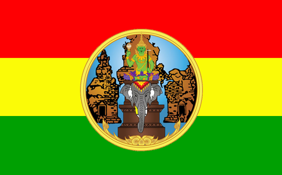 Flag of Surin Province